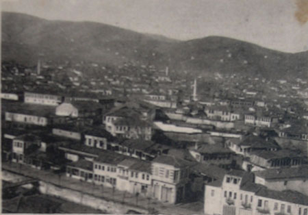 Bitola, Macedonia